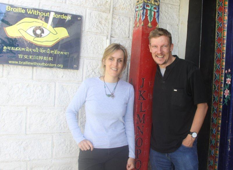 Founders of Braille Without Borders - kanthari; Sabriye Tenberken & Paul Kronenberg